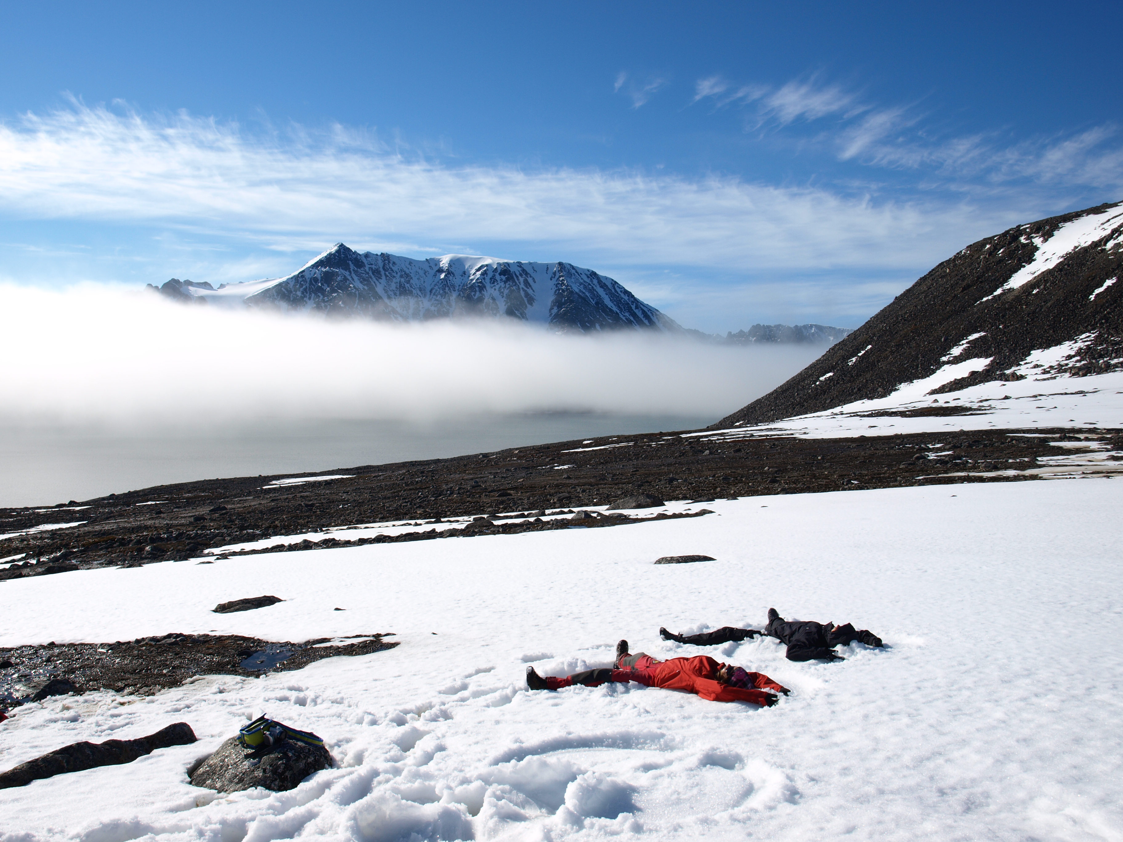 Two people making snow-angels in snow in Danskøya, Svalbard in July 2008